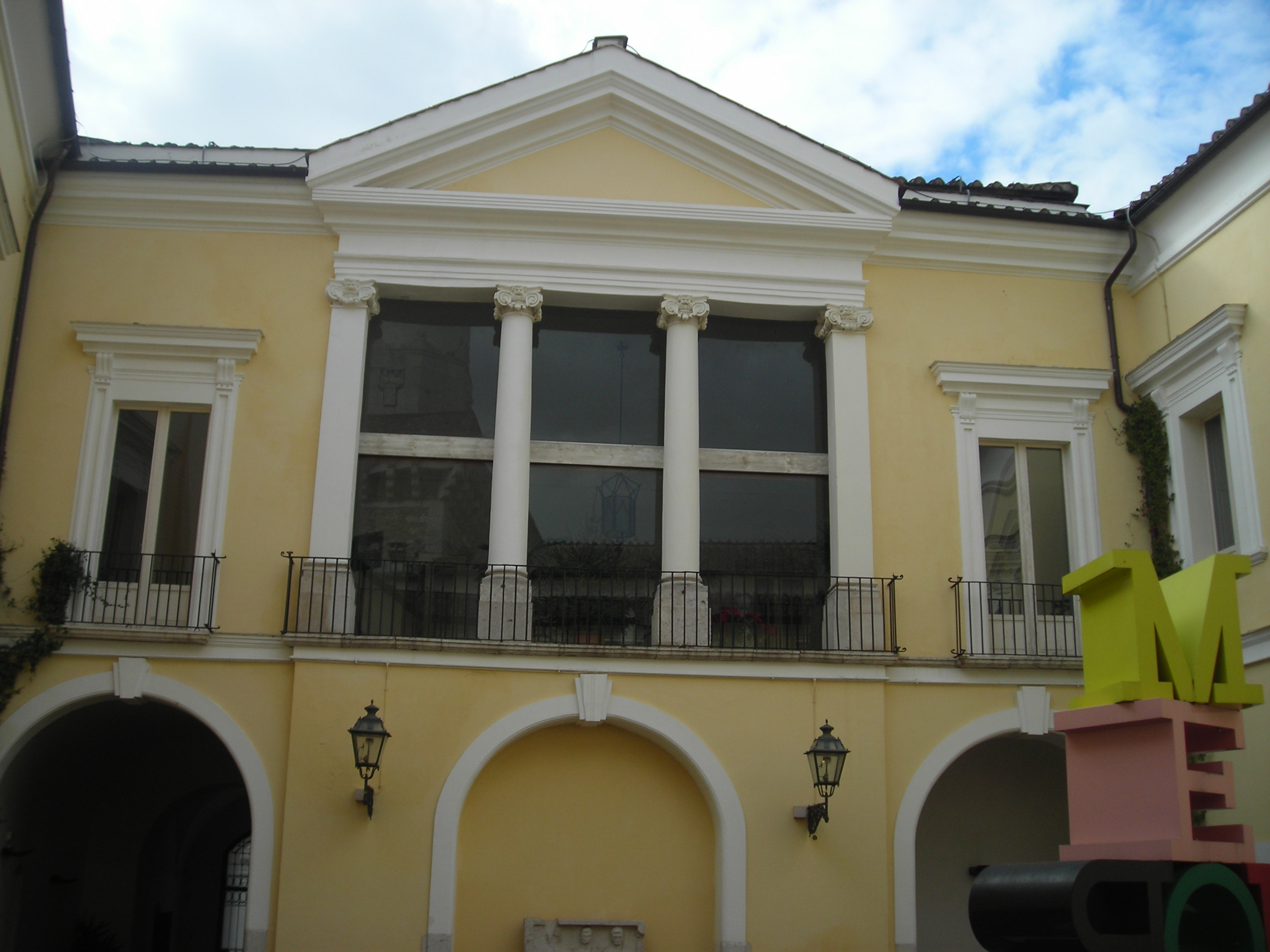 Rocca dei Rettori (also known as Castle of Manfredi), a castle in Benevento, southern Italy. It currently houses the Museum of the Samnium.